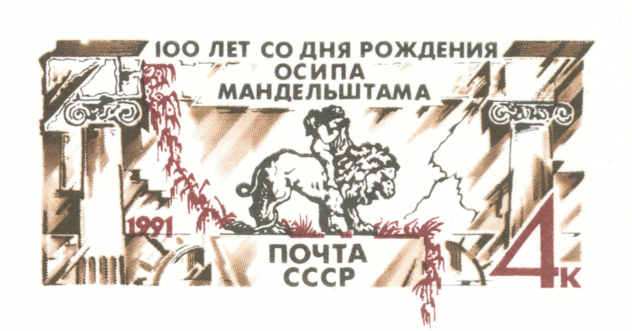 Soviet preprinted (original) postage stamp of 4 kopecks devoted to the 100th anniversary of Osip Mandelstam. Detail of a postcard of the Soviet Union (postal stationery), 1991.